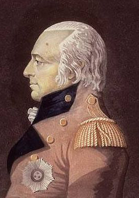 Modified version by myself of Image:James Henry Craig (color).jpg, Portrait of "His Excellency Sir James Henry Craig, Captain-General, and Governor in Chief of Lower Canada, Upper Canada". ca 1810-1811, London, England.